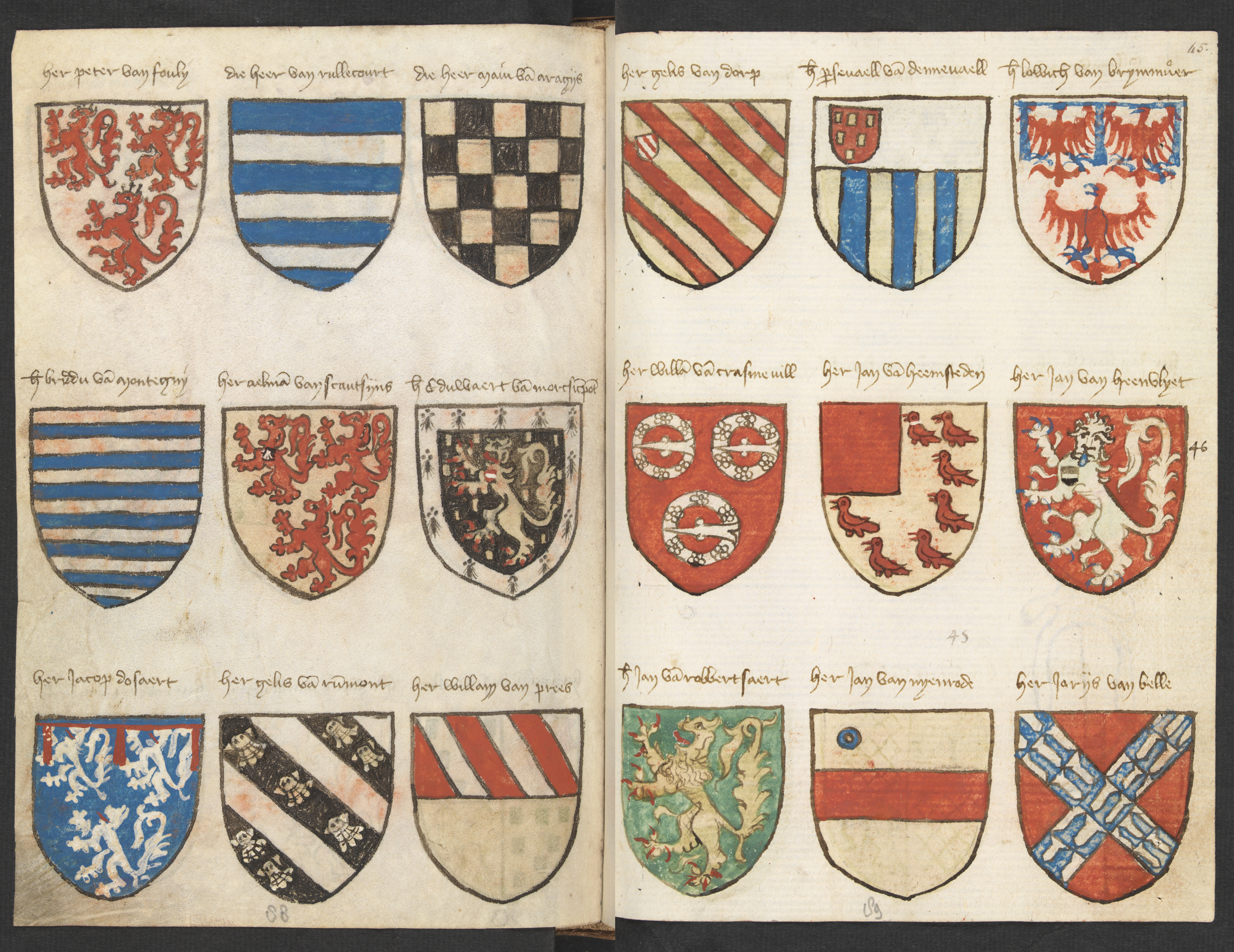 Lefthand side folio 044v; righthand side folio 045r from the Beyeren armorial / Wapenboek Beyeren